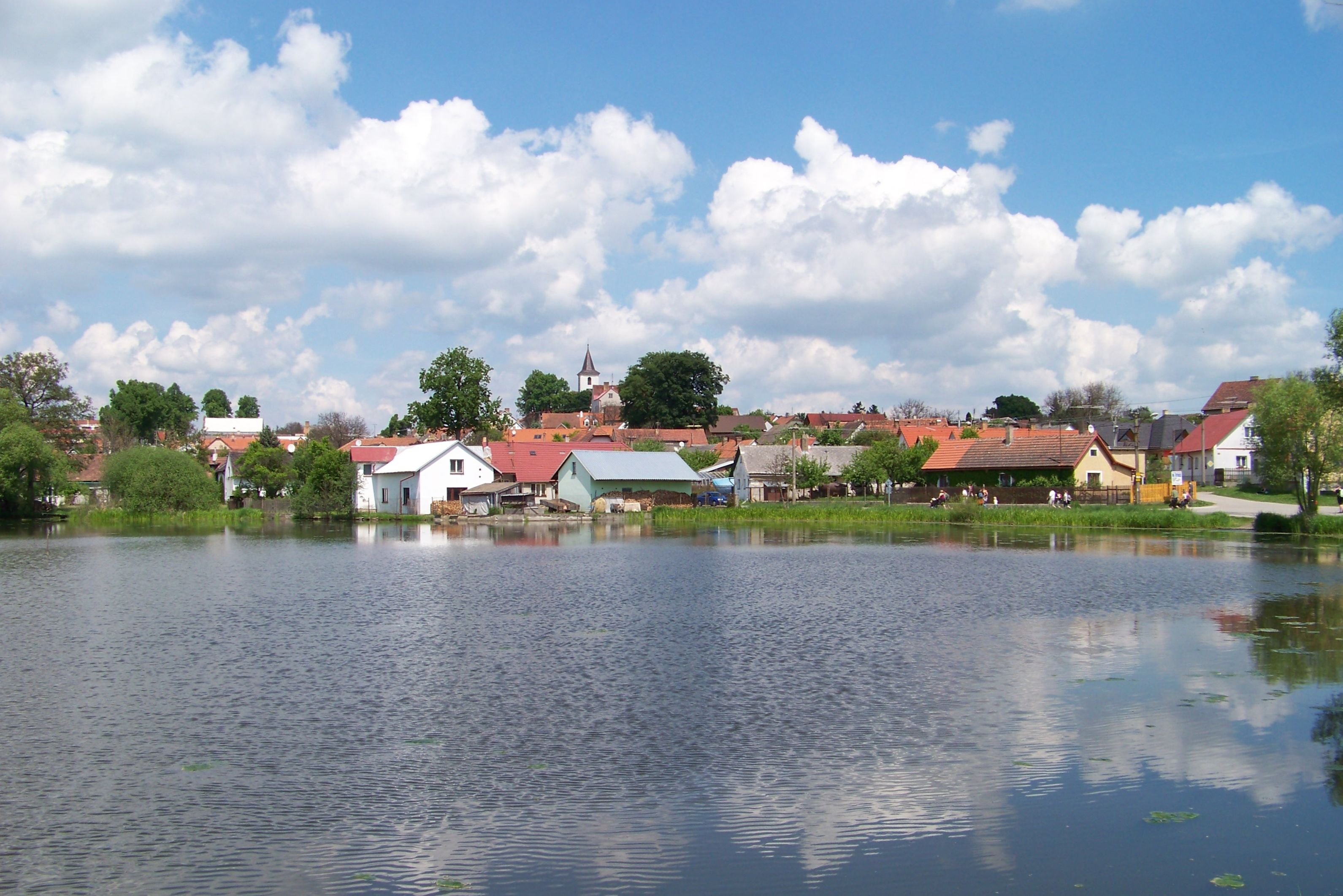 Borotín, Tábor District, South Bohemian Region, the Czech Republic. Borotínský Pond.